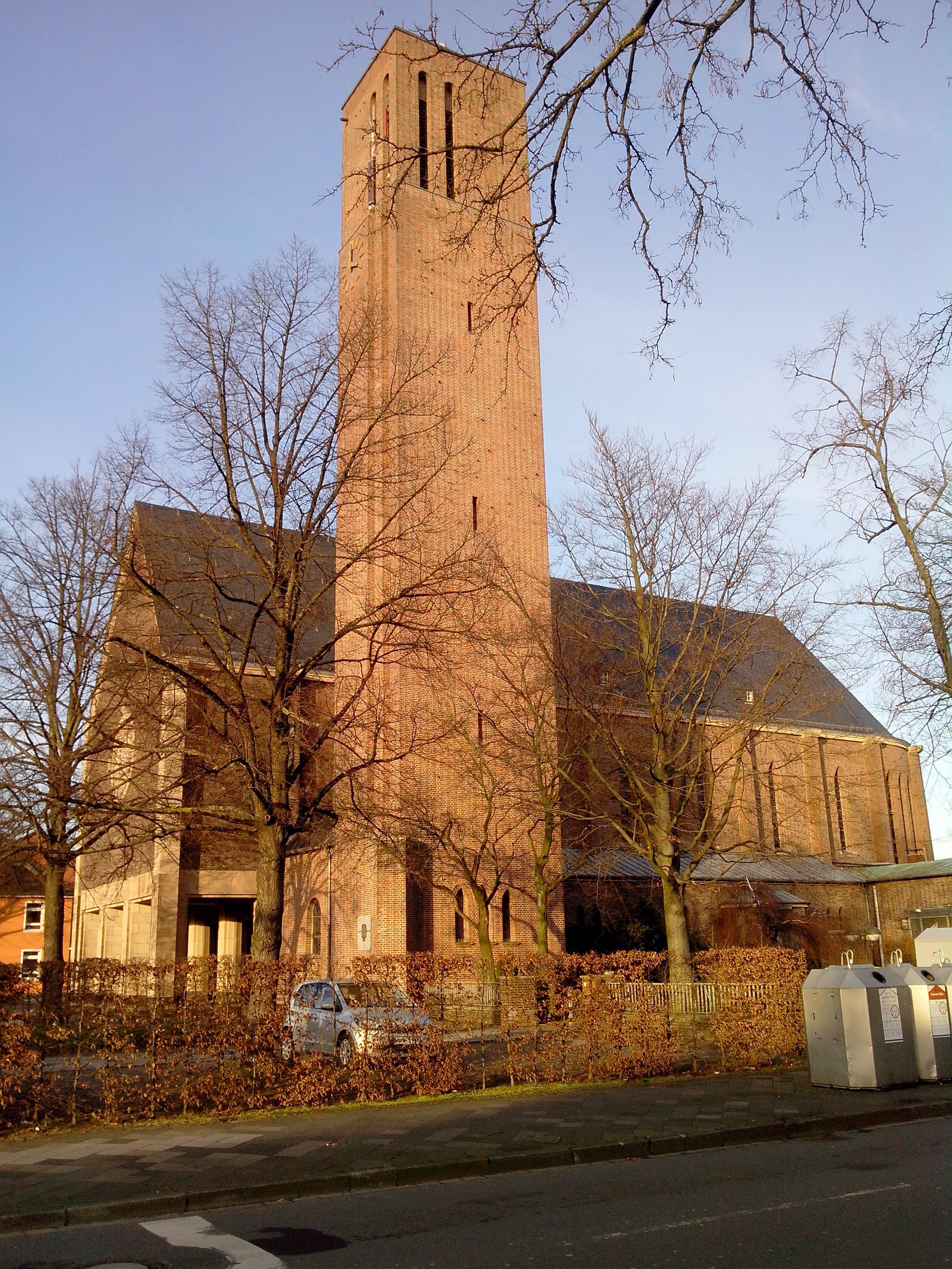 St. Bruno-Church, Duesseldorf